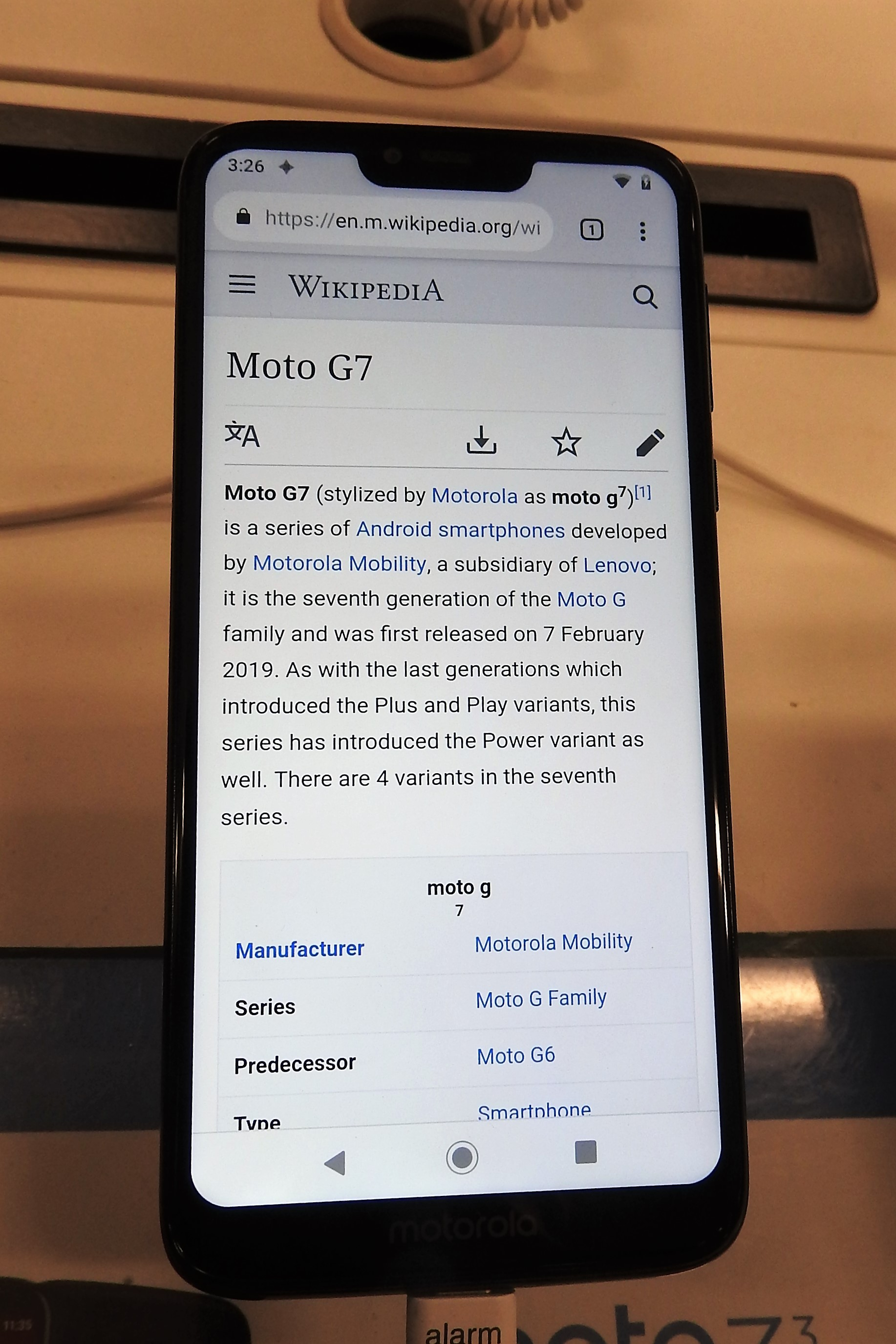 G7 Power showing its Wikipedia page